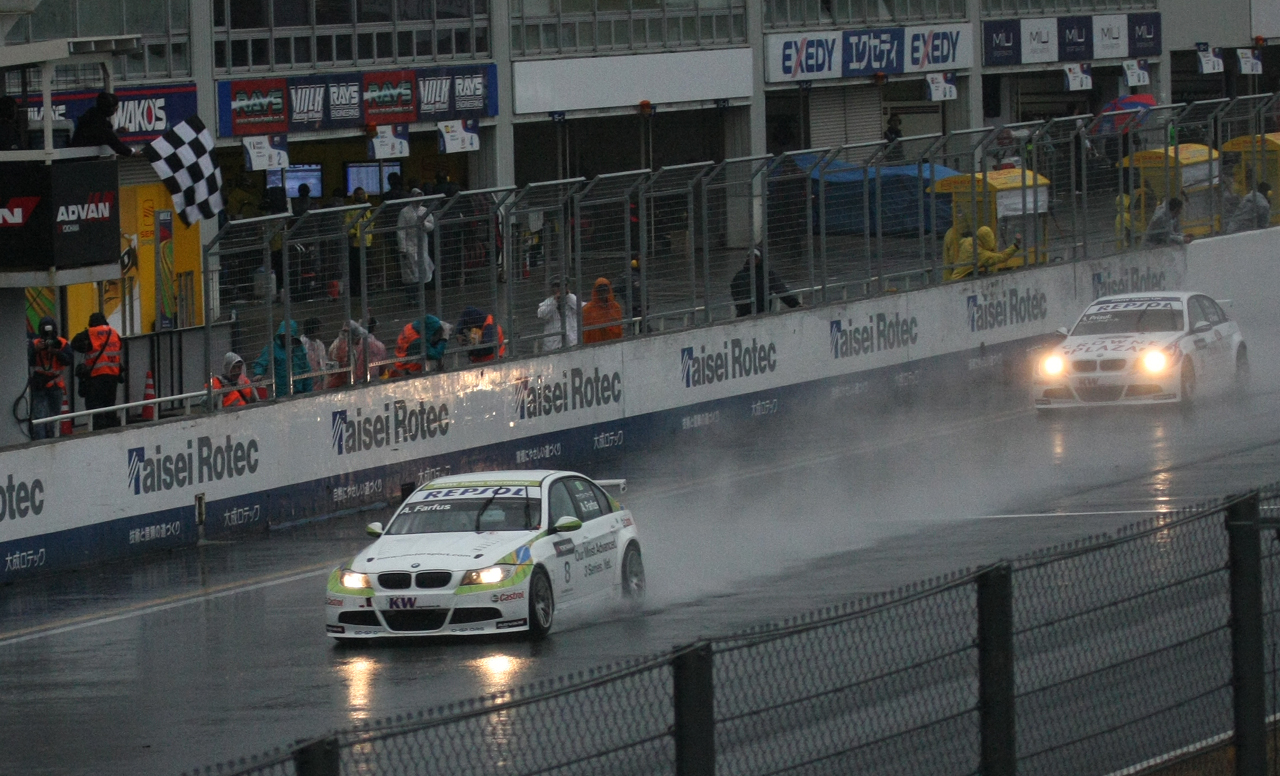 World Touring Car Championship 2009 Race of Japan: Augusto Farfus (BMW Team Germany) won Race 2.